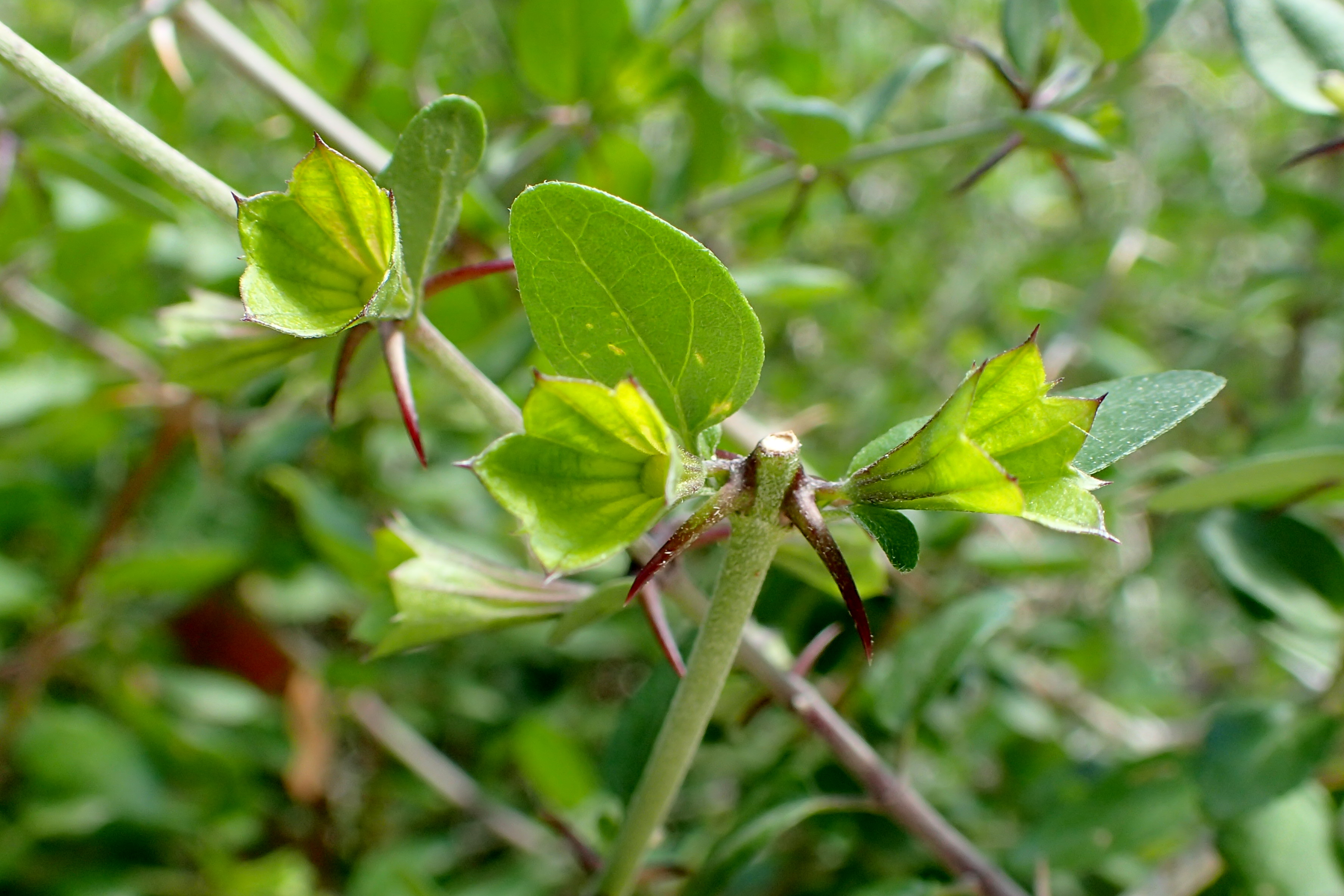 Acanthoprasium integrifolium in Avakas Gorge, Cyprus